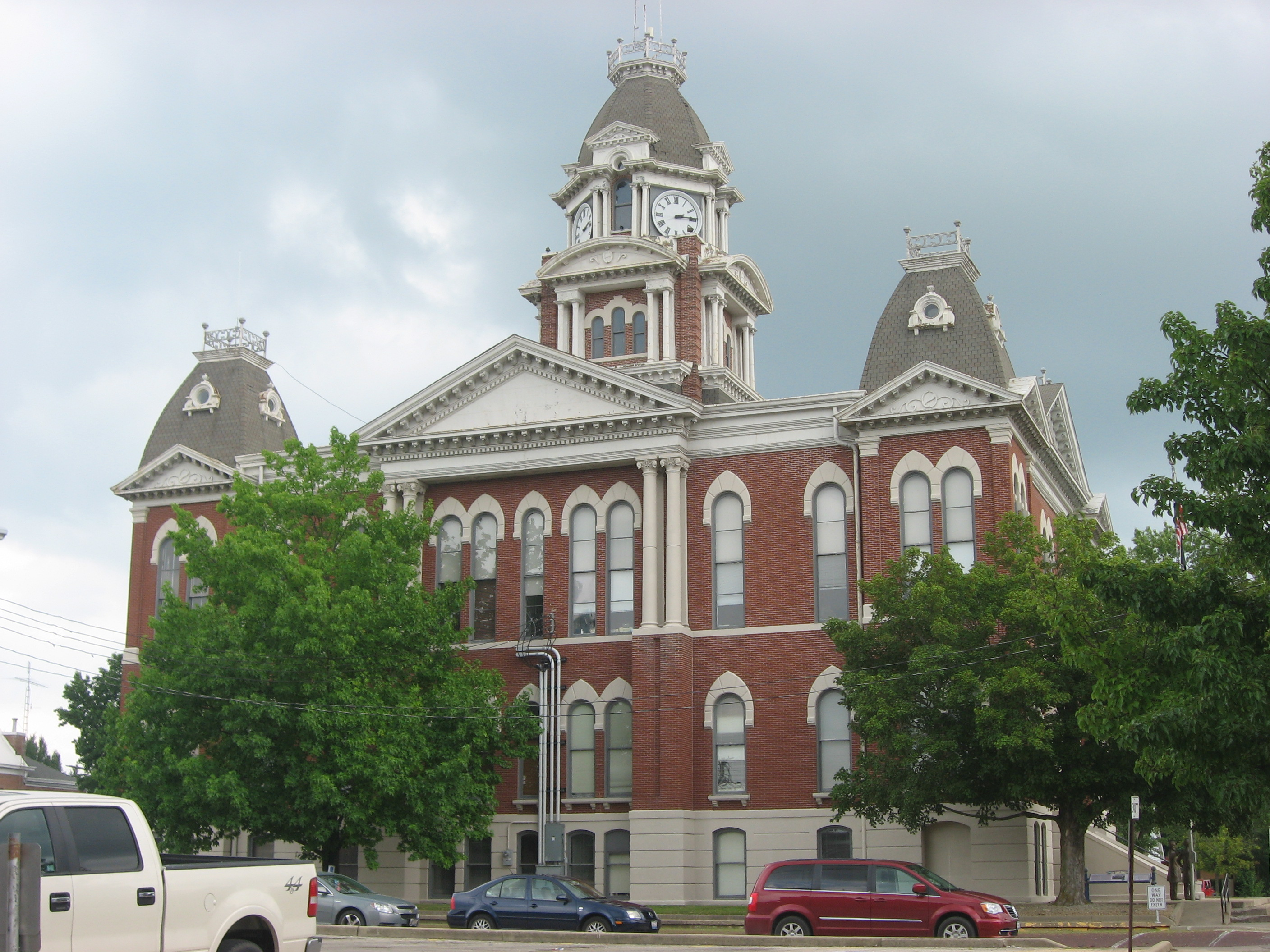 Western side of the Shelby County Courthouse, located at 301 E. Main Street (Illinois Route 16) in Shelbyville, Illinois, United States. Built in 1880, it is part of the Shelbyville Historic District, a historic district that is listed on the National Register of Historic Places.